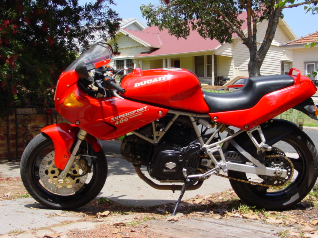 My own Ducati 400SS purchased around 2002